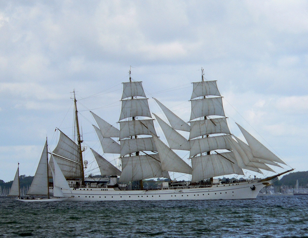 German Navy's training ship Gorch Fock (1958) under full sails (missing: spanker topsail) in the Kiel Fjord on a level with Laboe Naval Memorial.